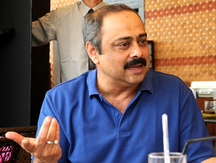 Sachin Khedekar at Meet & Greet of 'Chhodo Kal Ki Baatein' starcast